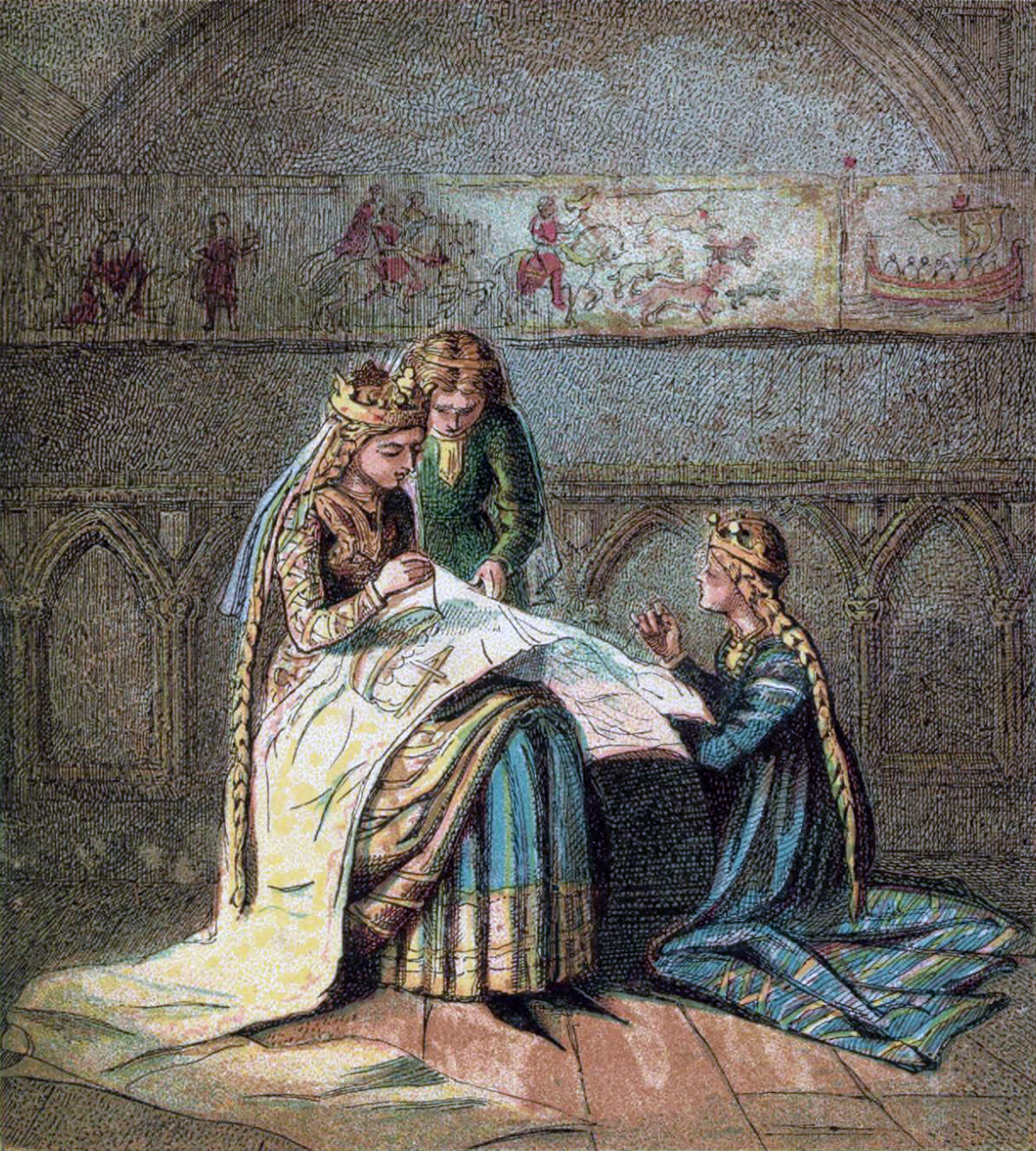 Matilda of Flanders making a tapestry